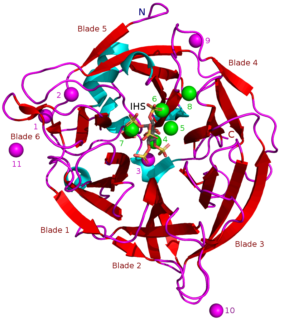 1.25 Å crystal structure of a β-propeller phytase in complex with IHS from Bacillus subtilis. Released: 2011-04-13. PDBID: 3AMR. Catalytically important calcium ions 4-8 are in green and less important calcium ions 1-3 and 9-11 are in magenta. N- and C-terminals, propeller "blades" and myo-inositol hexasulfate (IHS, a phytate analogue) are shown in the picture. Organism(s): Bacillus subtilis Expression System: Escherichia coli This picture is made with PyMOL version 2.0.4 and is based on the following study: Zeng, Yi-Fang; Ko, Tzu-Ping; Lai, Hui-Lin; Cheng, Ya-Shan; Wu, Tzu-Hui; Ma, Yanhe; Chen, Chun-Chi; Yang, Chii-Shen; Cheng, Kuo-Joan (2011-06-03). "Crystal structures of Bacillus alkaline phytase in complex with divalent metal ions and inositol hexasulfate". Journal of Molecular Biology. 409 (2): 214–224. ISSN 1089-8638. PMID 21463636.